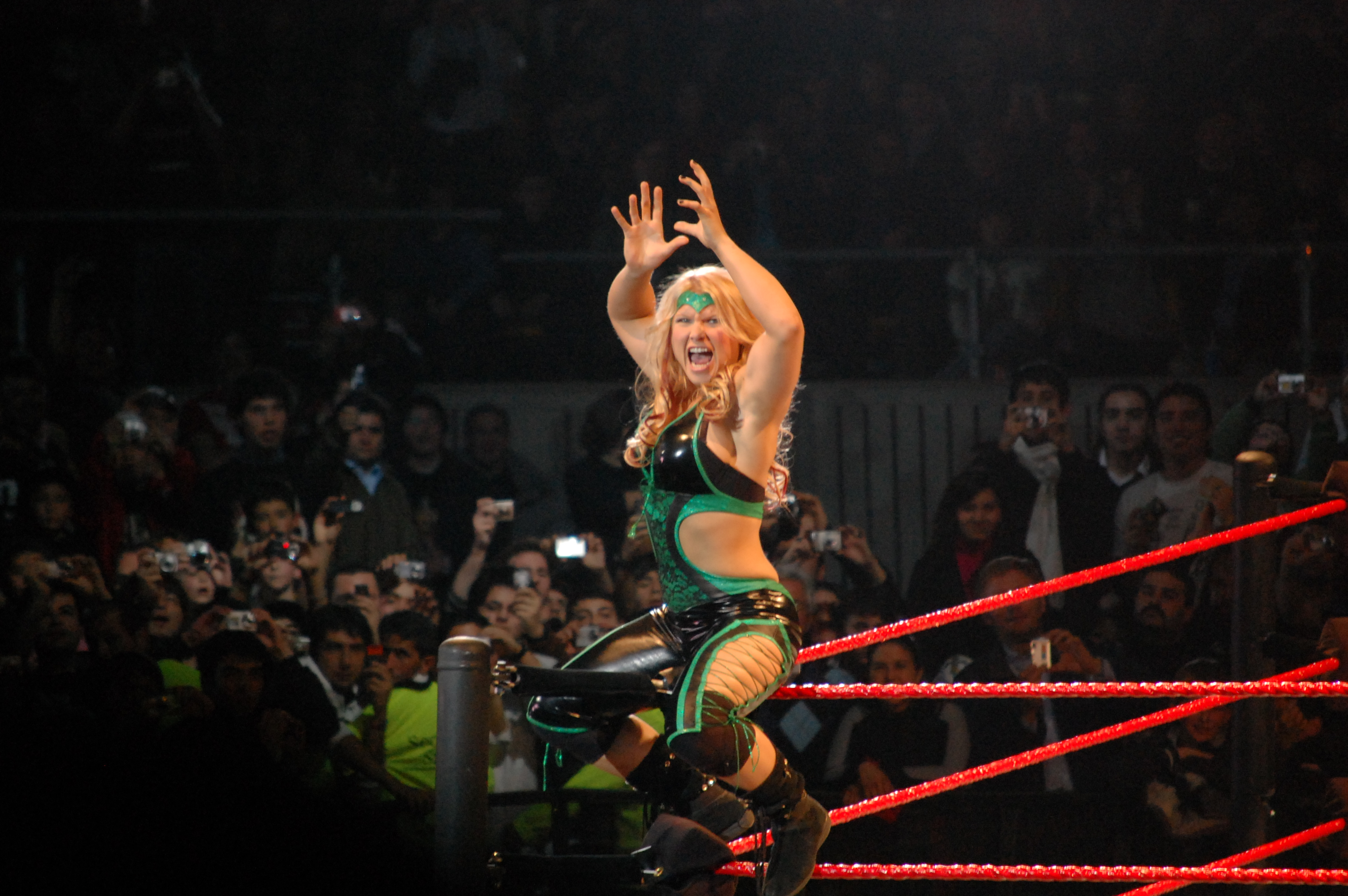 "The Glamazon" Beth Phoenix making her ring entrance